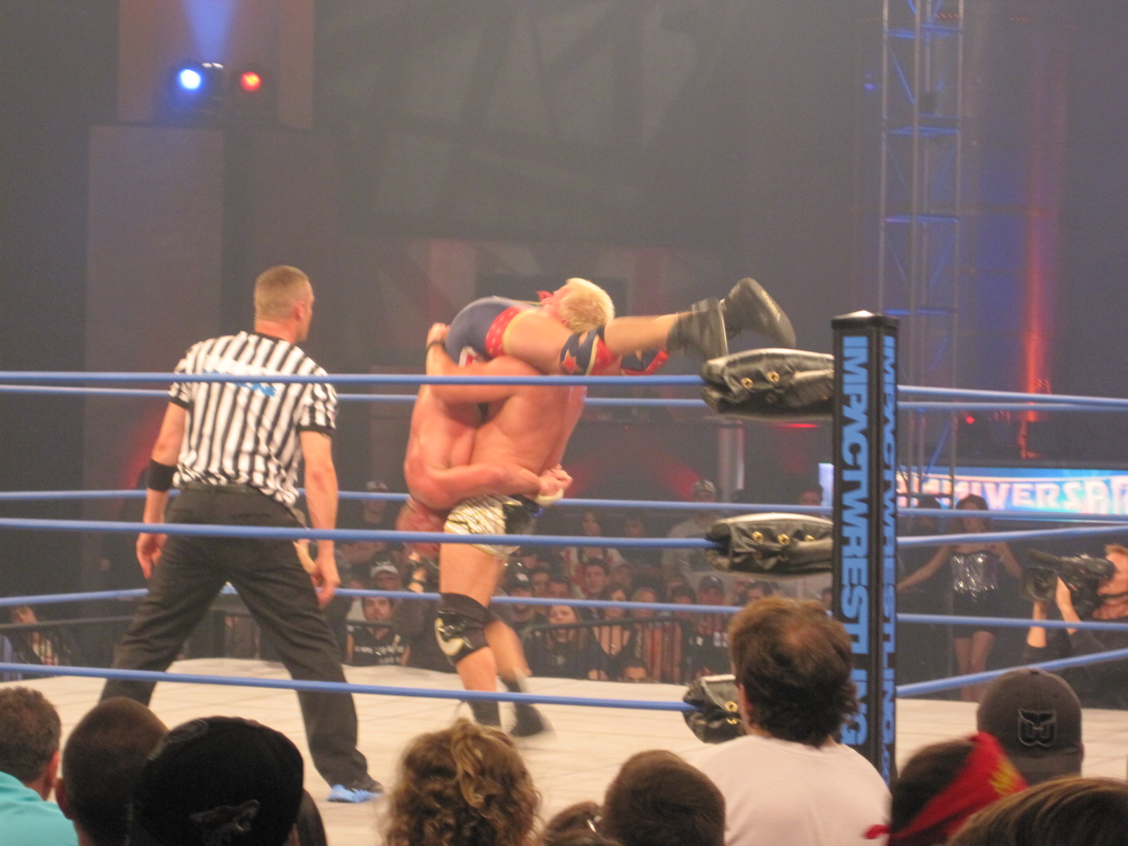 Sunday, June 12, 2011. Universal Orlando